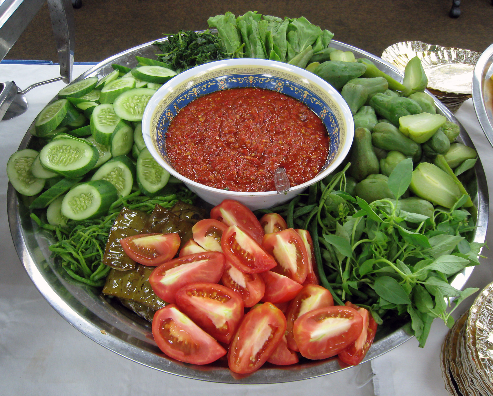 Lalab platter, assorted raw vegetables; tomato, cucumber, lettuces, lemon basil, etc (except labu siam are boiled, and petai stinky green bean are fried). Served with sambal terasi (chili with shrimp paste). A popular Sundanese cuisine. The cooking of Ibu Sulastri, Rawasari, Central Jakarta.